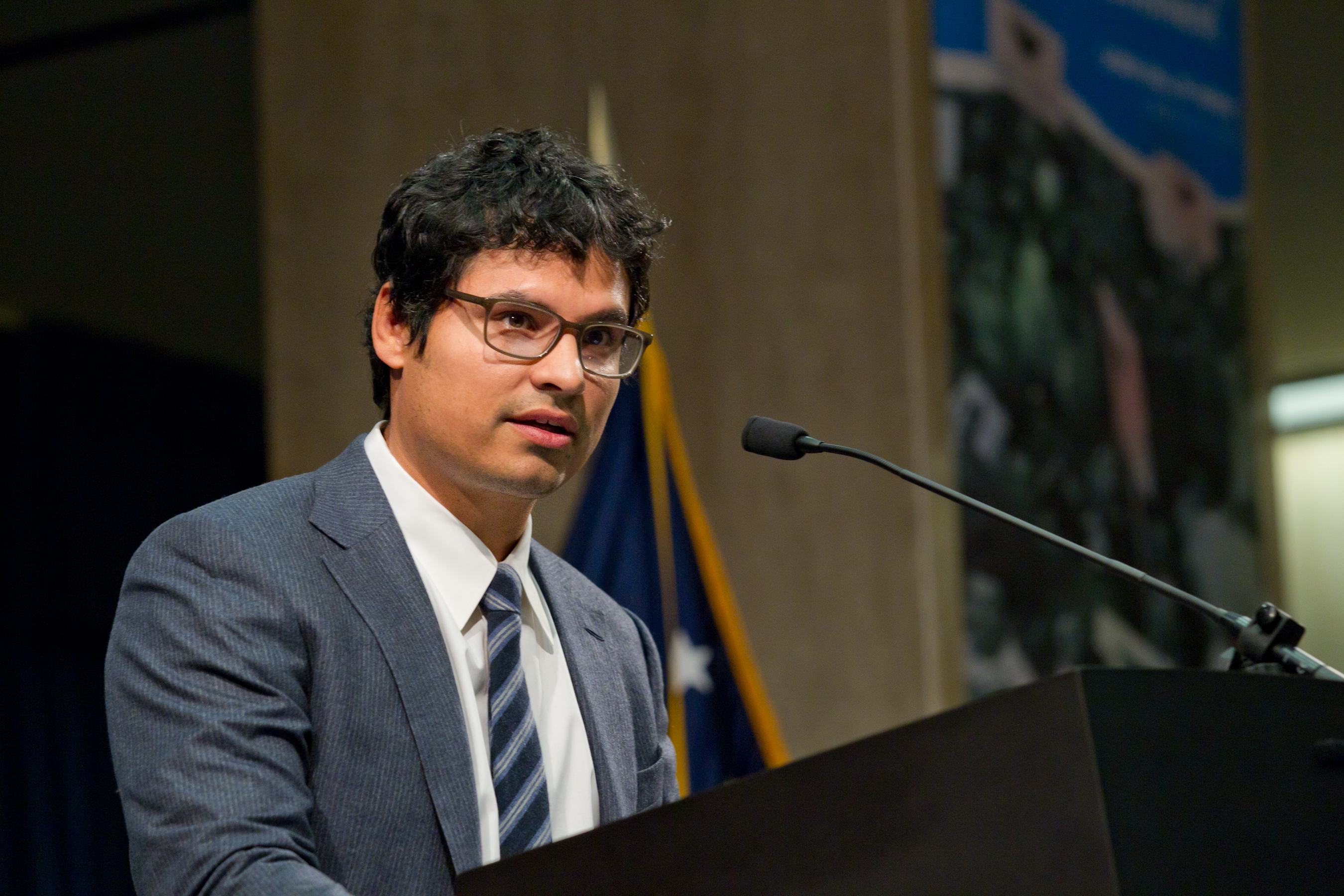 26 March 2012 - Washington, DC - Secretary of Labor Hilda L. Solis hosted the Induction of the Farm Worker Movement into the Labor Hall of Honor in the Great Hall and then proceeded to name and unveil the Cesar E. Chavez Memorial Auditorium. Family members from the Chavez family were on hand as well as Secretary of the Interior Ken Salazar and Secretary of Agriculture Tom Vilsack. Secretary Solis was joined for the unveiling by Dr. Jill Biden. Actor Michael Pena was the master of ceremonies for the Induction ceremony. Official Department of Labor Photograph*** This official Department of Labor photograph is, because it is a work of the US Federal Government, in the public domain from a copyright perspective, so while restrictions such as personality or privacy rights may apply, in general, manipulations are allowed that don't in any way suggest approval or endorsement Secretary, or the Department of Labor.